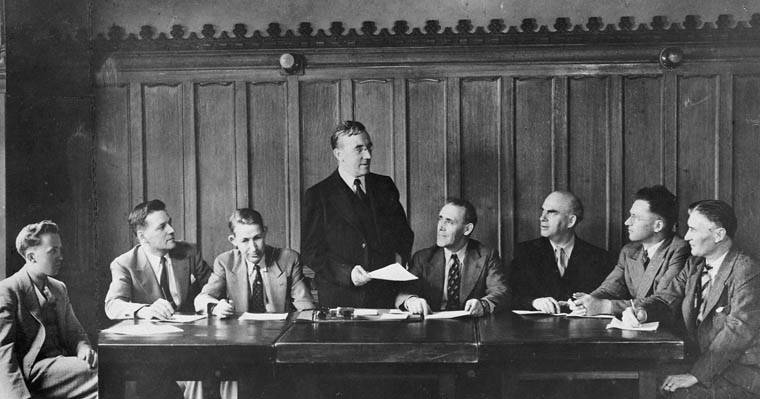 Federal CCF Caucus, 1942. M.J. Coldwell is the new leader after Woodsworth's death. Left to right, Tommy Douglas, George Castleden, Angus MacInnis, Coldwell, Clarie Gillis , Joe Noseworthy, Sandy Nicholoson, and Percy Wright. From the Library and Archives of Canada image description page Reference Numbers: Accession: 1963-070 Reproduction: C-000314 Use Reproduction Copyright: Expired Credit: C.C.F. / Library and Archives Canada / C-000314